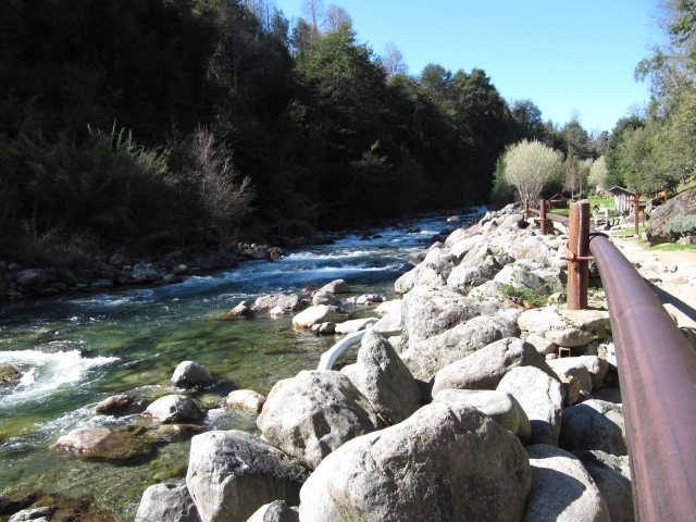 River in Chile.